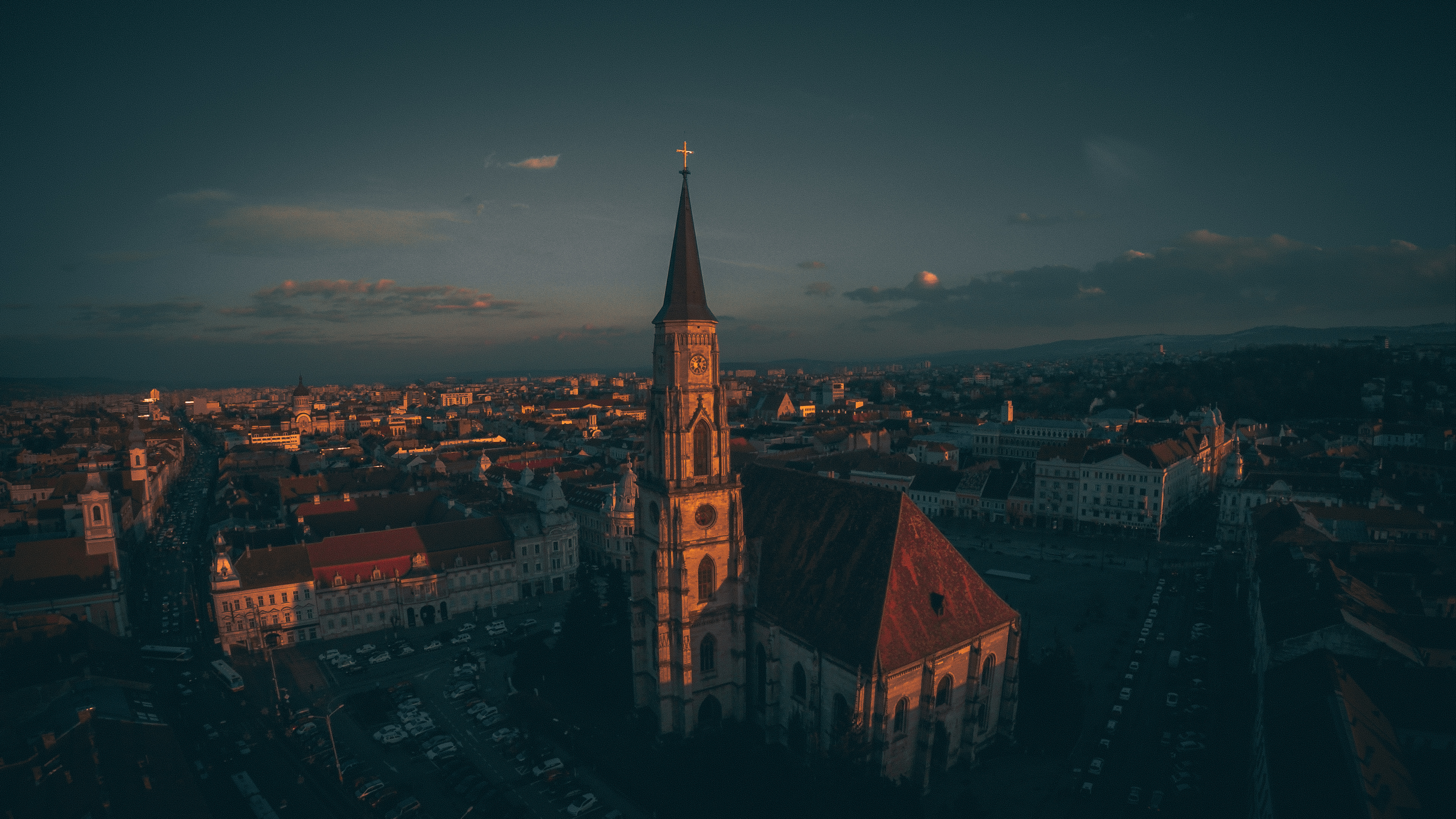 Cluj-Napoca, Romania